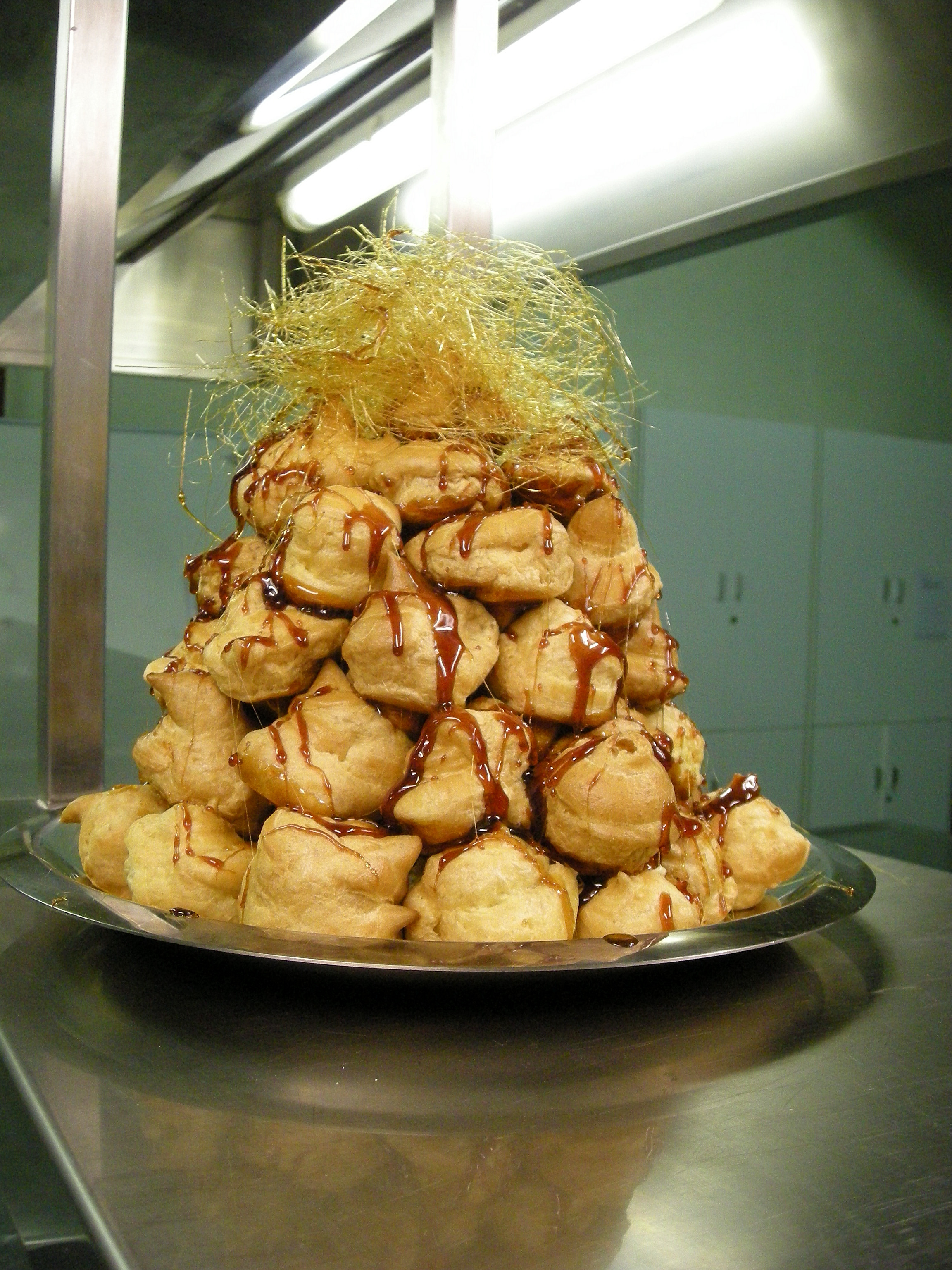 Profiteroles